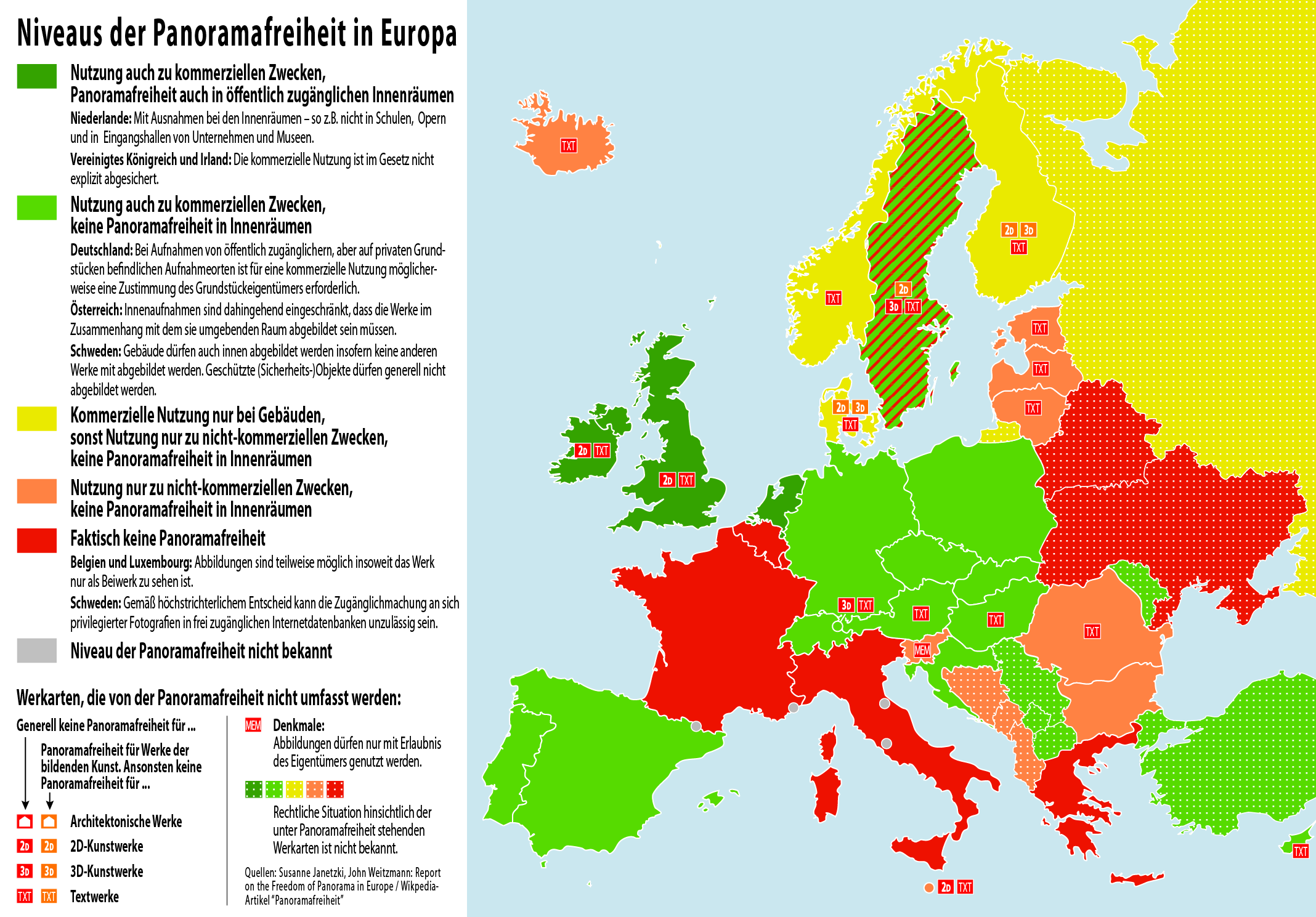 Levels of Freedom of Panorama in Europe